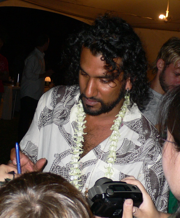 Naveen Andrews signing autographs